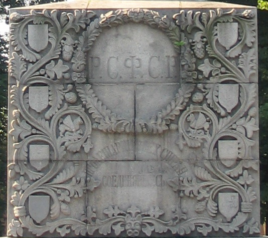 The "Obelisk-Monument" in the Alexander Garden, Moscow, with names of socialist and communist thinkers (redesigned 1918 from a prior Romanov Anniversary monument)